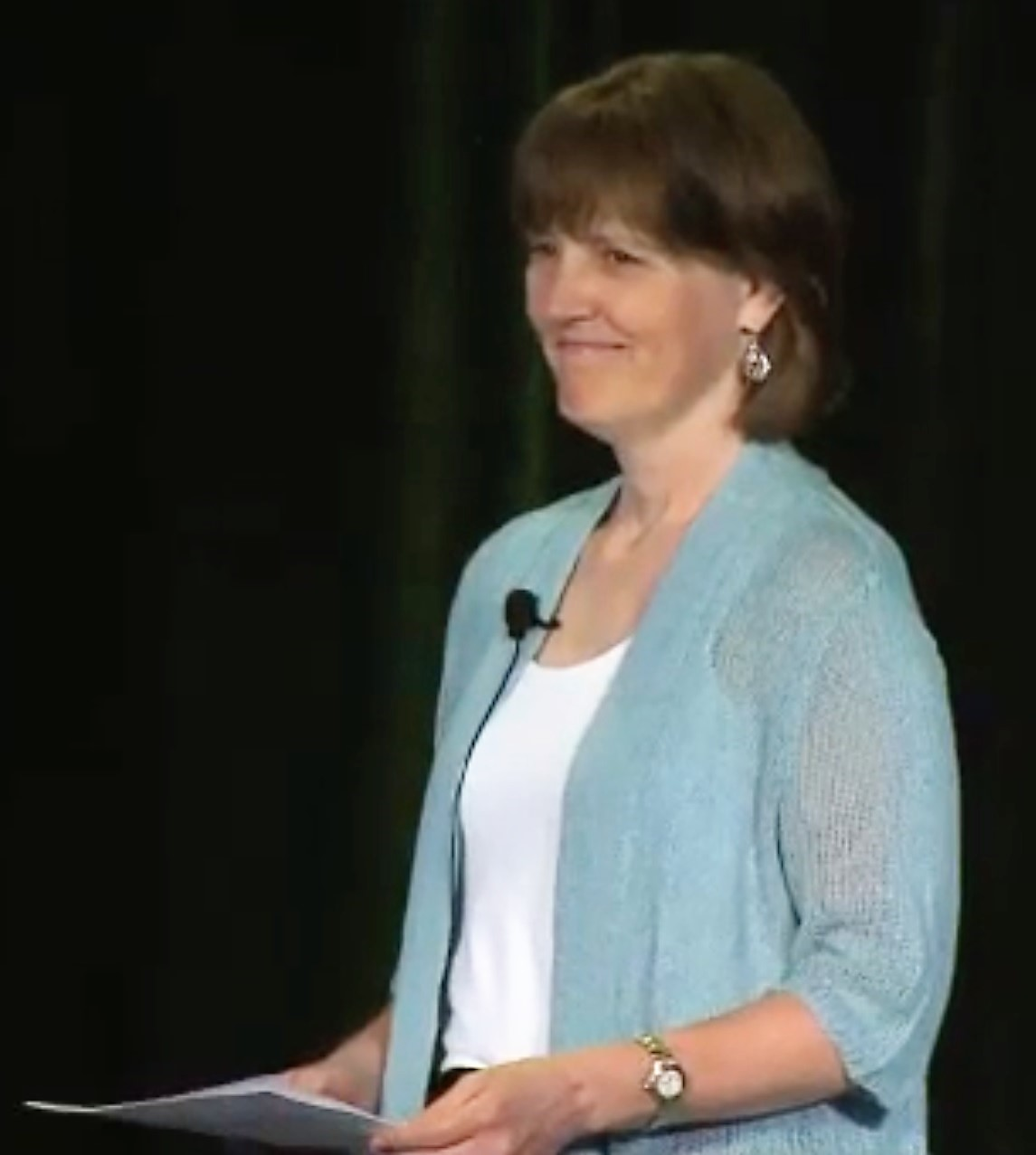 American computer scientist Janice E. "Jan" Cuny speaks at the National Center for Women & Information Technology (NCWIT) Summit Workshop 2012